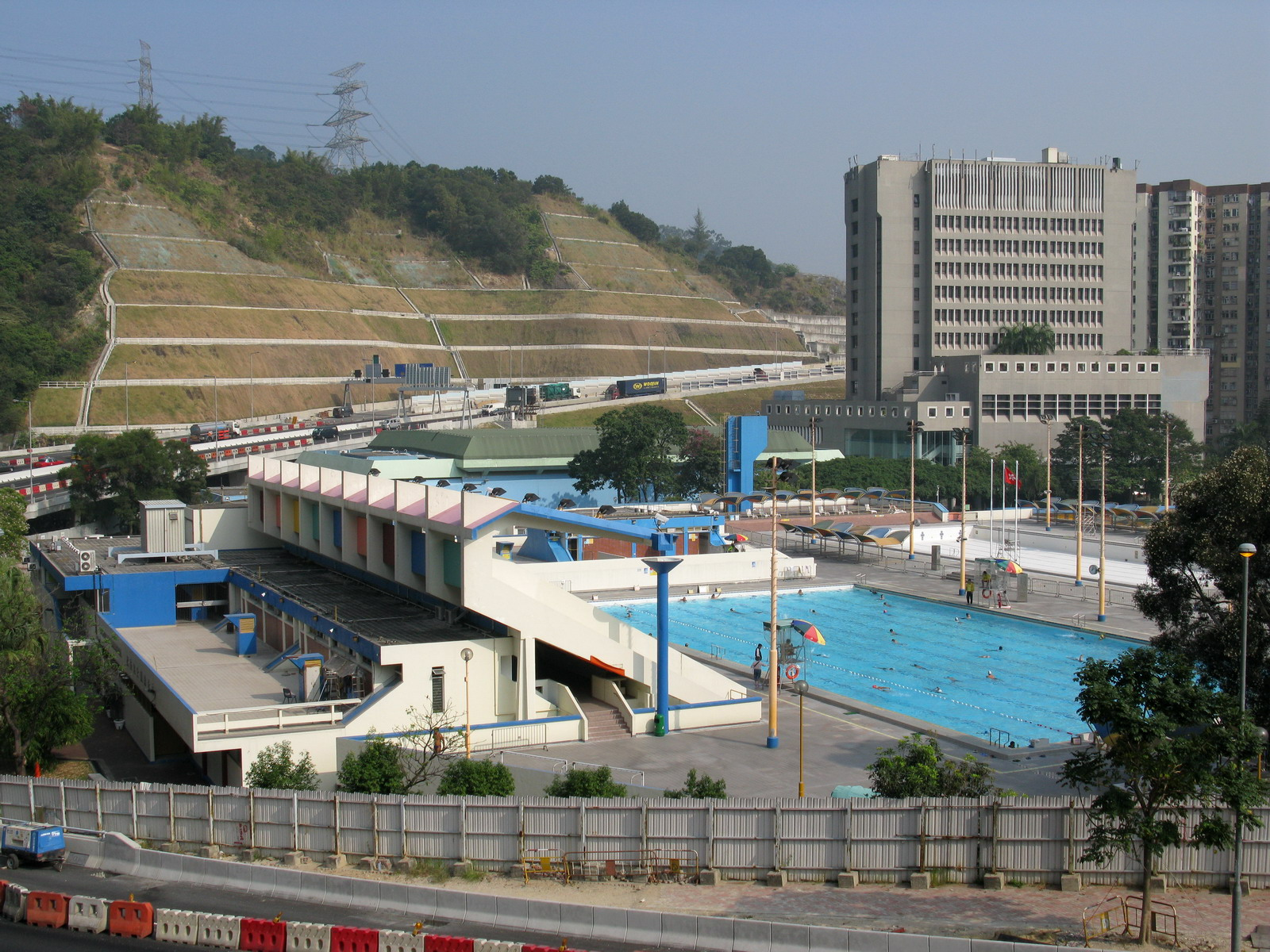 Lai Chi Kok Park Swimming Pool